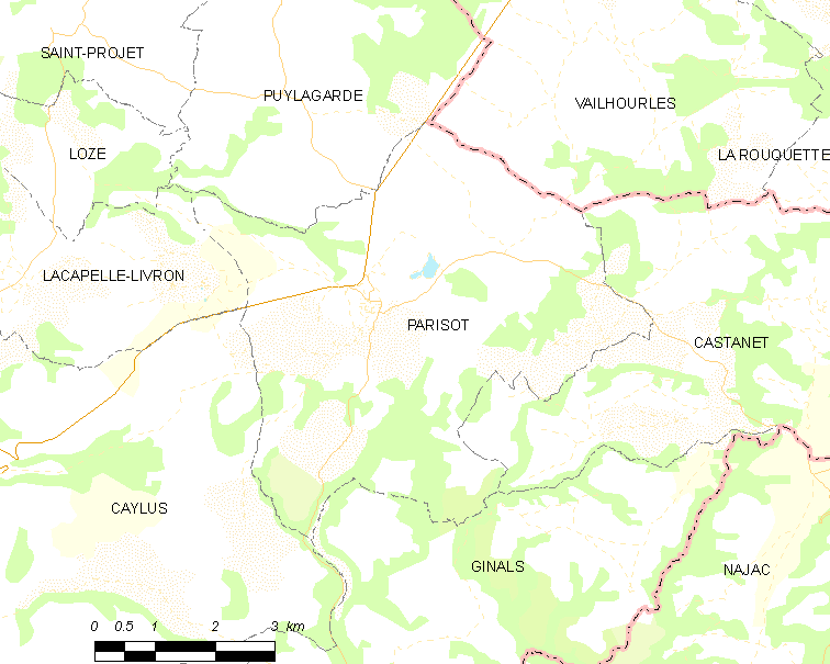 Map of French municipality Parisot